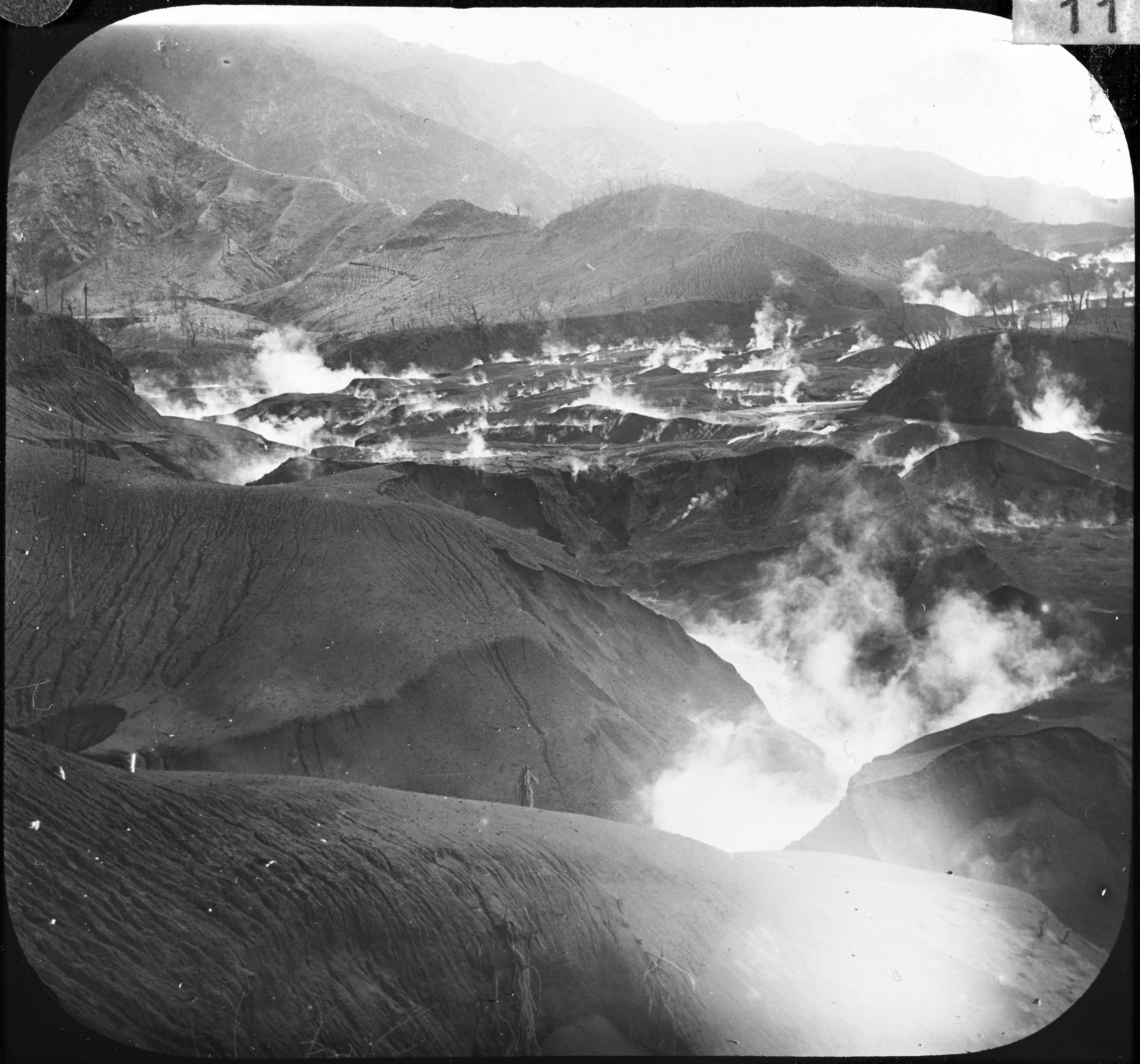 View of river with craters in background. Craters are the result of interaction of the river water or ground water with hot ash. The hot ash is the deposit of nuees ardentes.